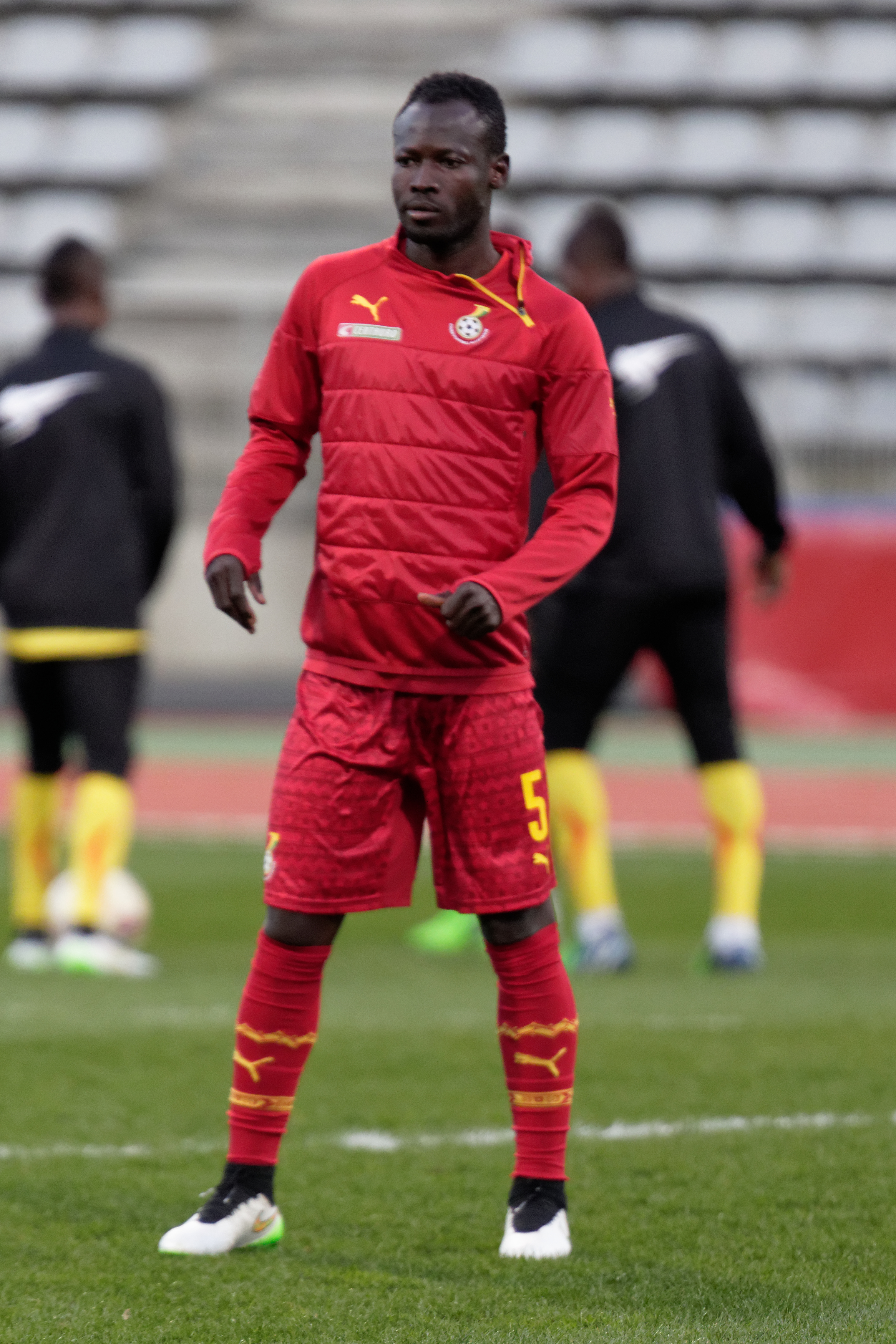 Mali vs Ghana, exhibition game at Paris, 31st March 2015.